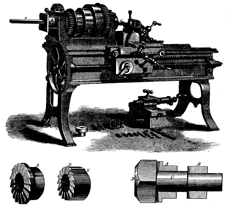 Machine making screws, nuts and axles